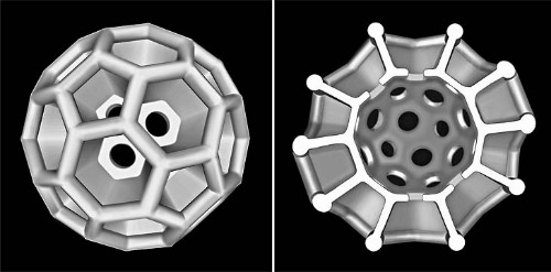 A model of a typical integumental brochosome: whole (left) and dissected to show the interior (right). The model was created by Olga Karengina based on transmission electron microphotographs of R.A. Rakitov.